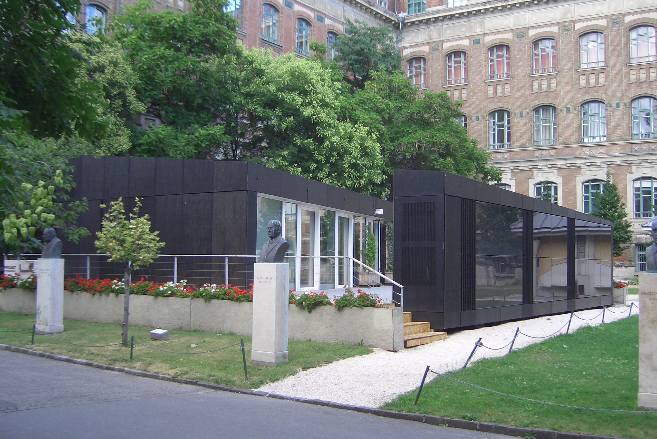 Odoo Project Test House, award winner at the Solar Decathlon international energetical conference. Work of a students group from the Budapest Technical University. (House displayed in the University Garden)